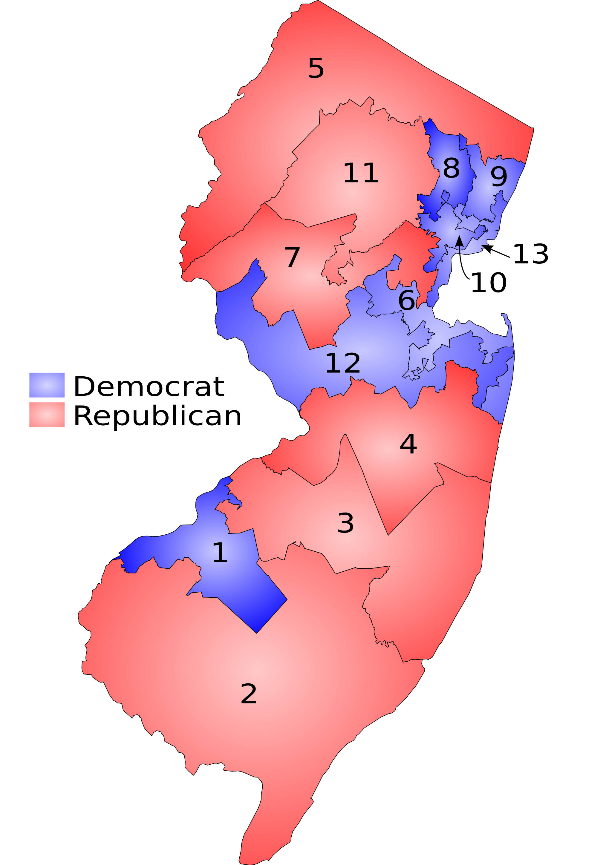 New Jersey 109th congressional districts shaded by party. The coloring is actually valid for 106th through 110th Congresses.